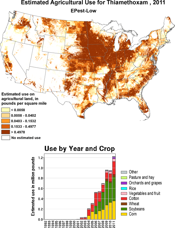 Thiamethoxam map of use, USA, 2011 (estimated)